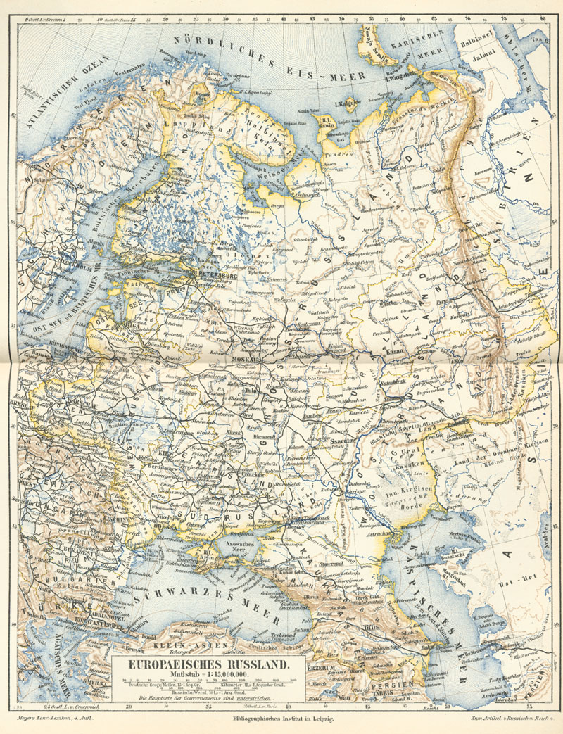 Historical map of the european part of Russia